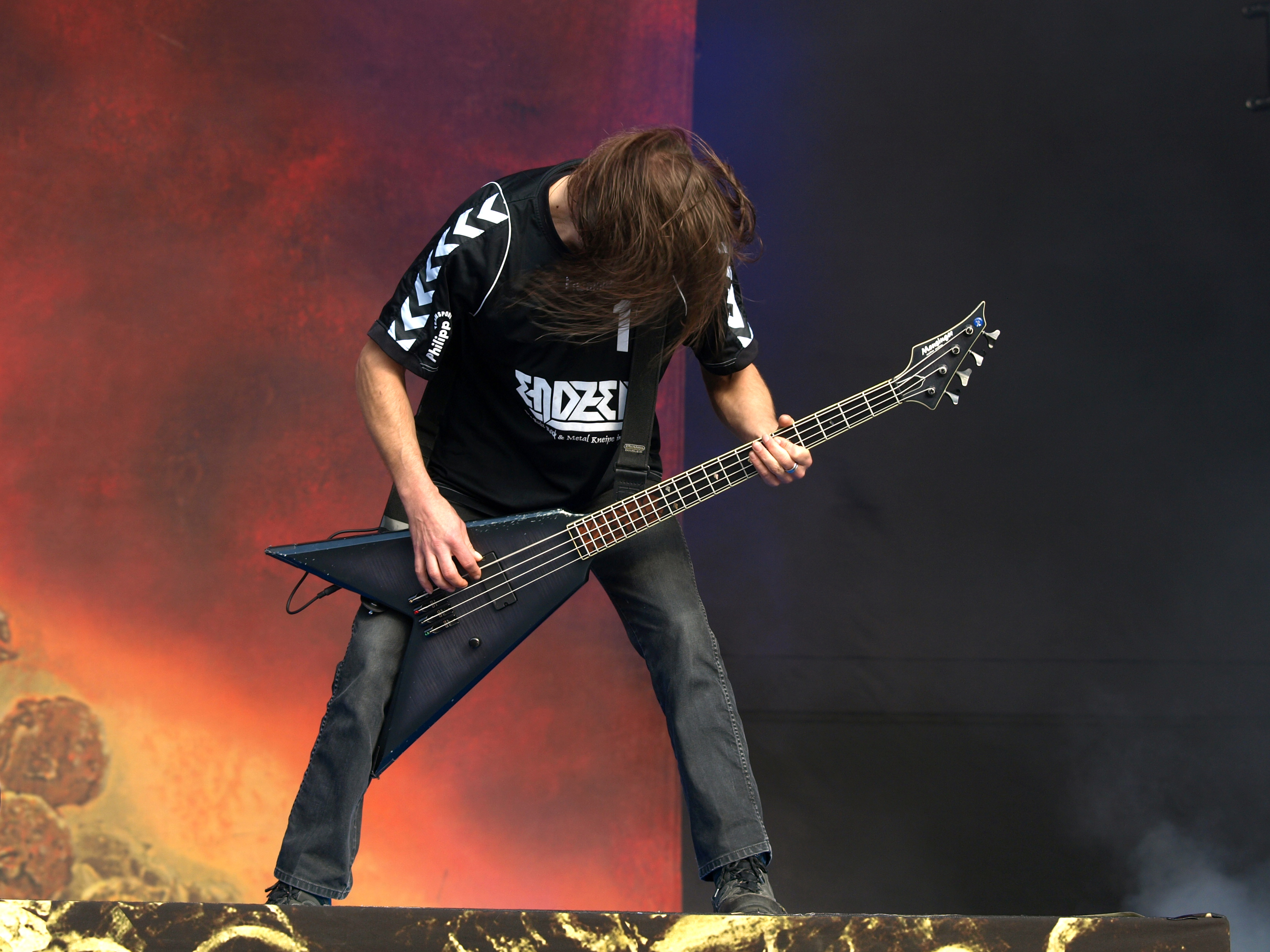 German thrash metal band Kreator live at Tuska Open Air 2013